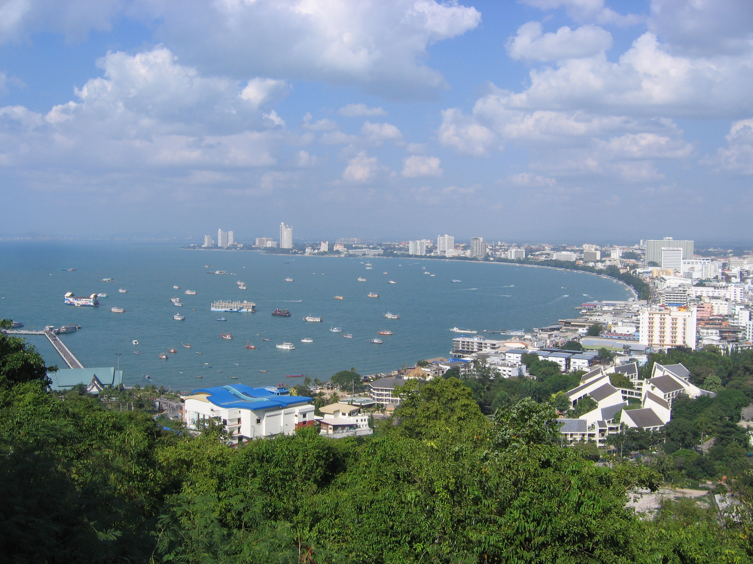 Pattaya beach from view point